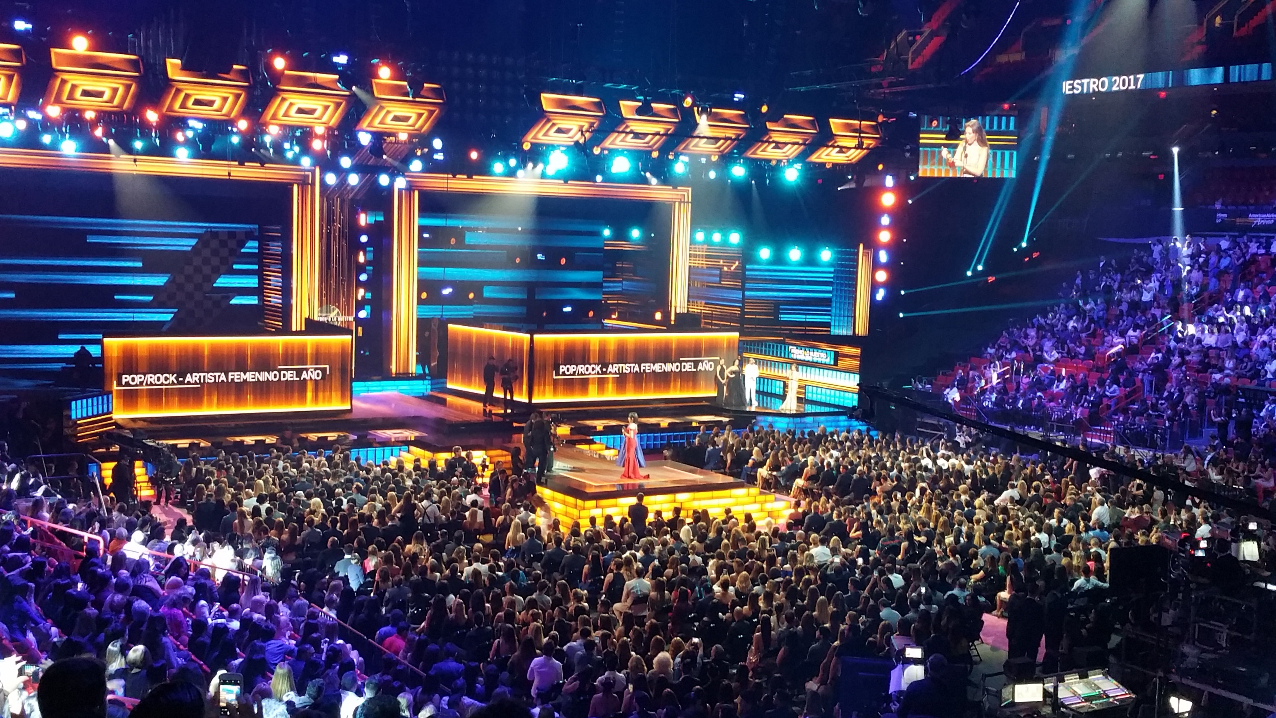 Thalía on stage (far right) at Lo Nuestro Awards 2017, American Airlines Arena, Miami, receiving award for Pop/Rock - Female Artist Of The Year.